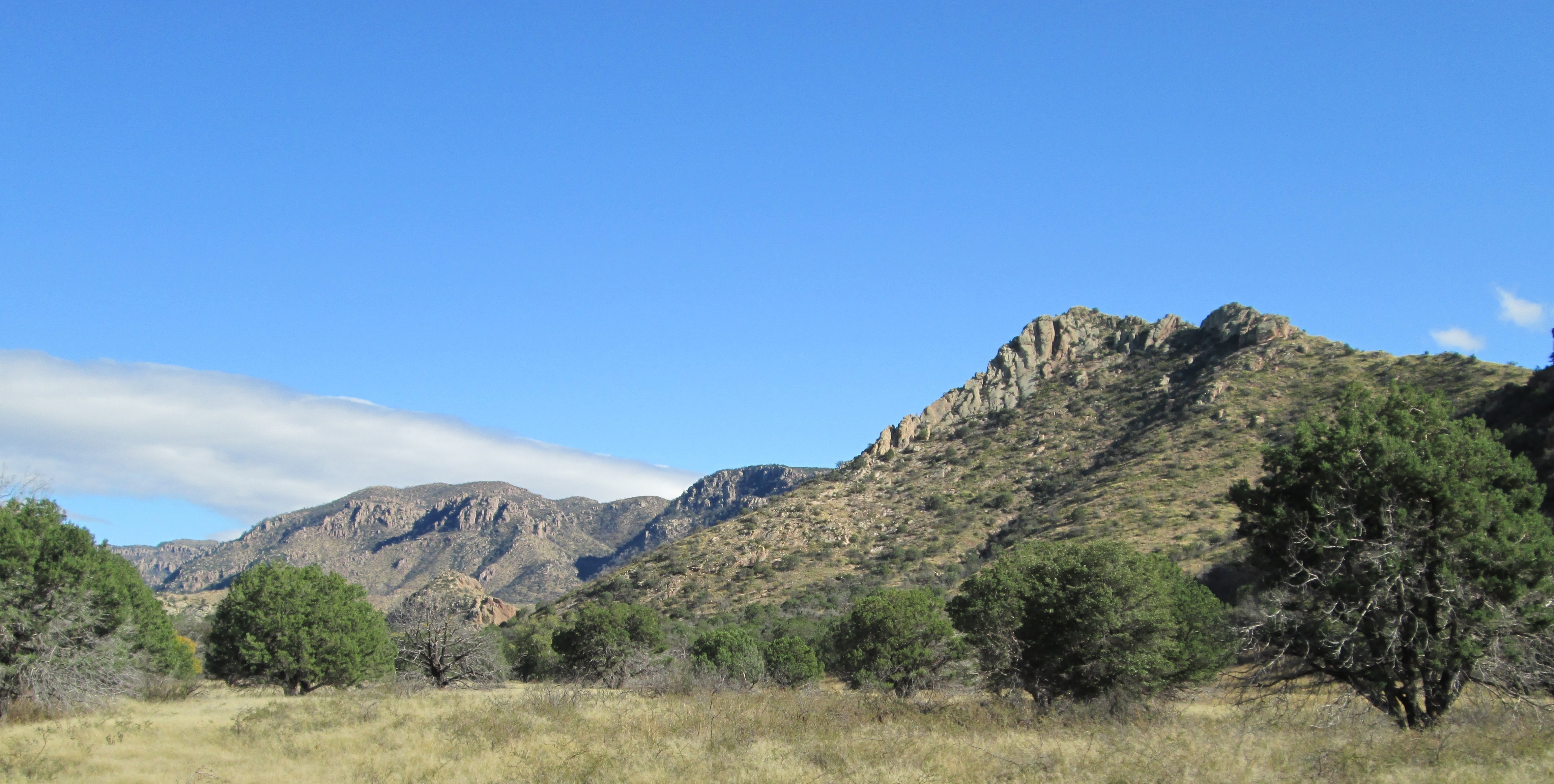 Bonita Canyon, Arizona, facing east toward the Faraway Ranch from the Bonita Creek picnic area.